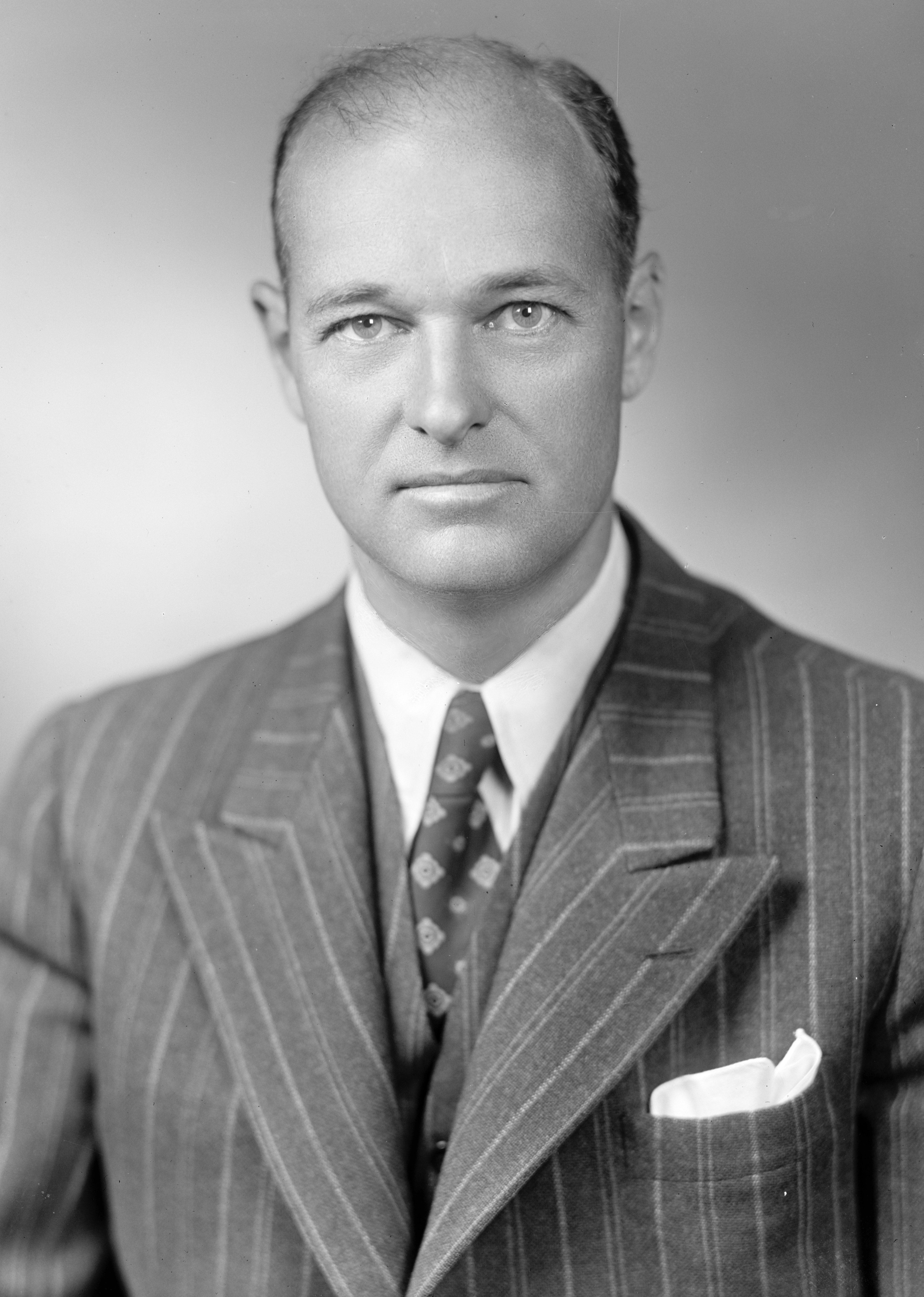 American diplomat and political scientist George F. Kennan (1904-2005)